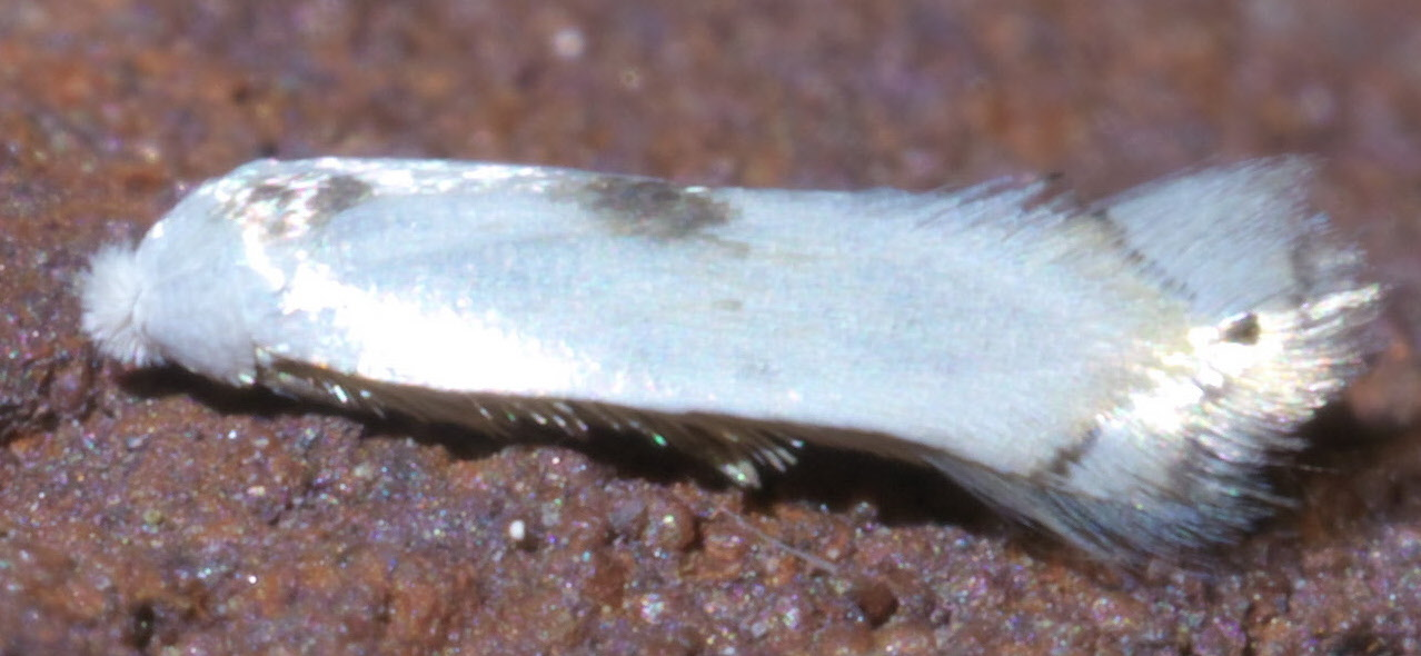 Pseudopostega, Superfamily: Pygmy Leafmining Moths, Probably P. albogaleriella, Size: 4.2 mm, ID Confidence: 87